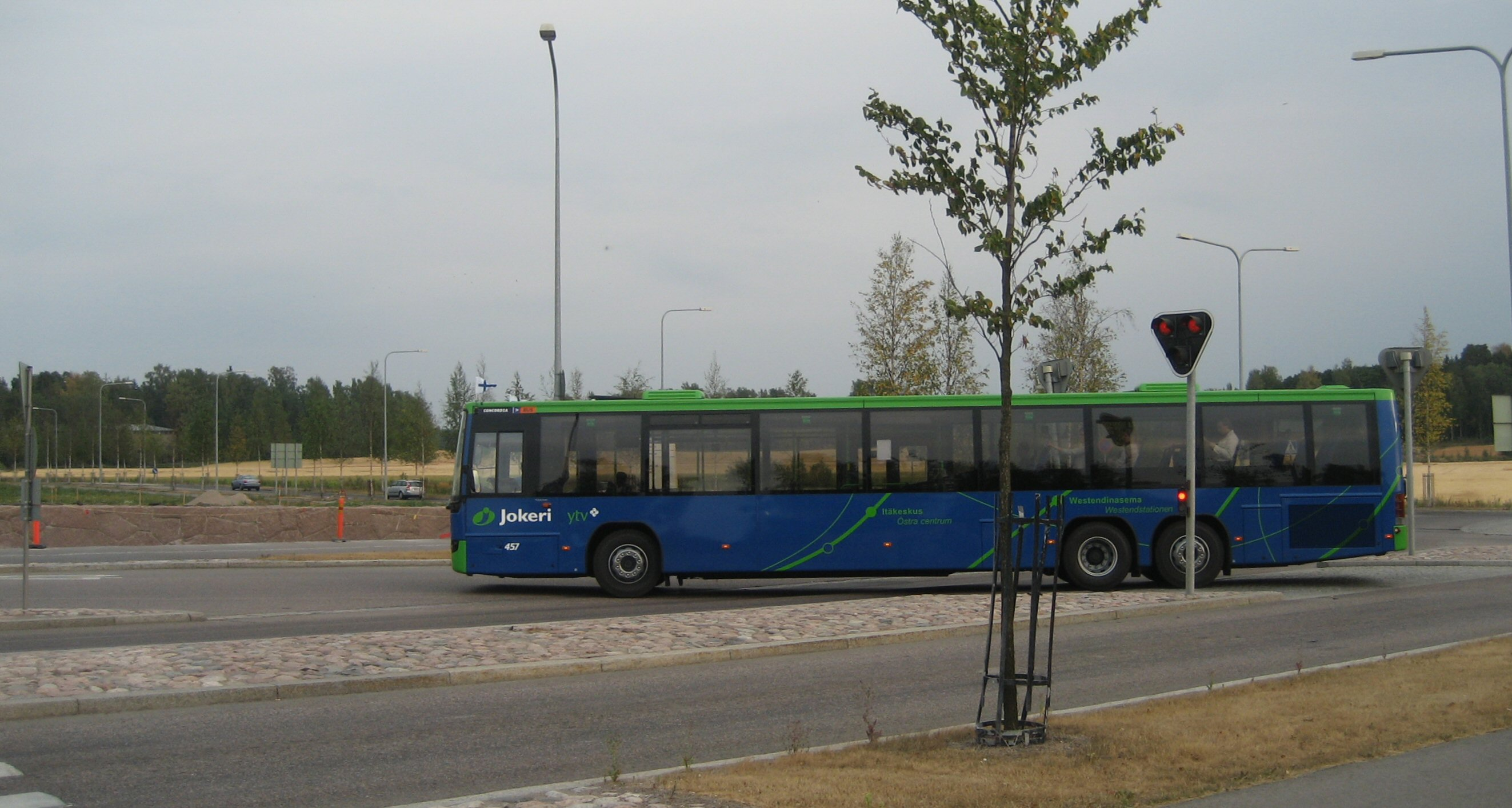 Jokeri-lights stopping other traffic while a bus on line 550 crosses the intersection. Volvo 8700 LE 6x2 bus (reg. OXI-681, #457) with Volvo B12BLE chassis. Built 2006, Concordia Bus Finland operator.